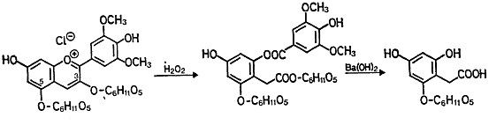 ACD Labs